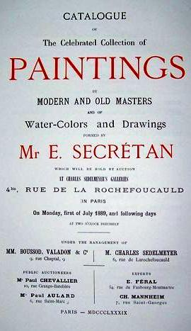 Monsieur Eugene Secretan art sale catalogue by the Paris gallery of Charles Sedelmayer, Paris 1889